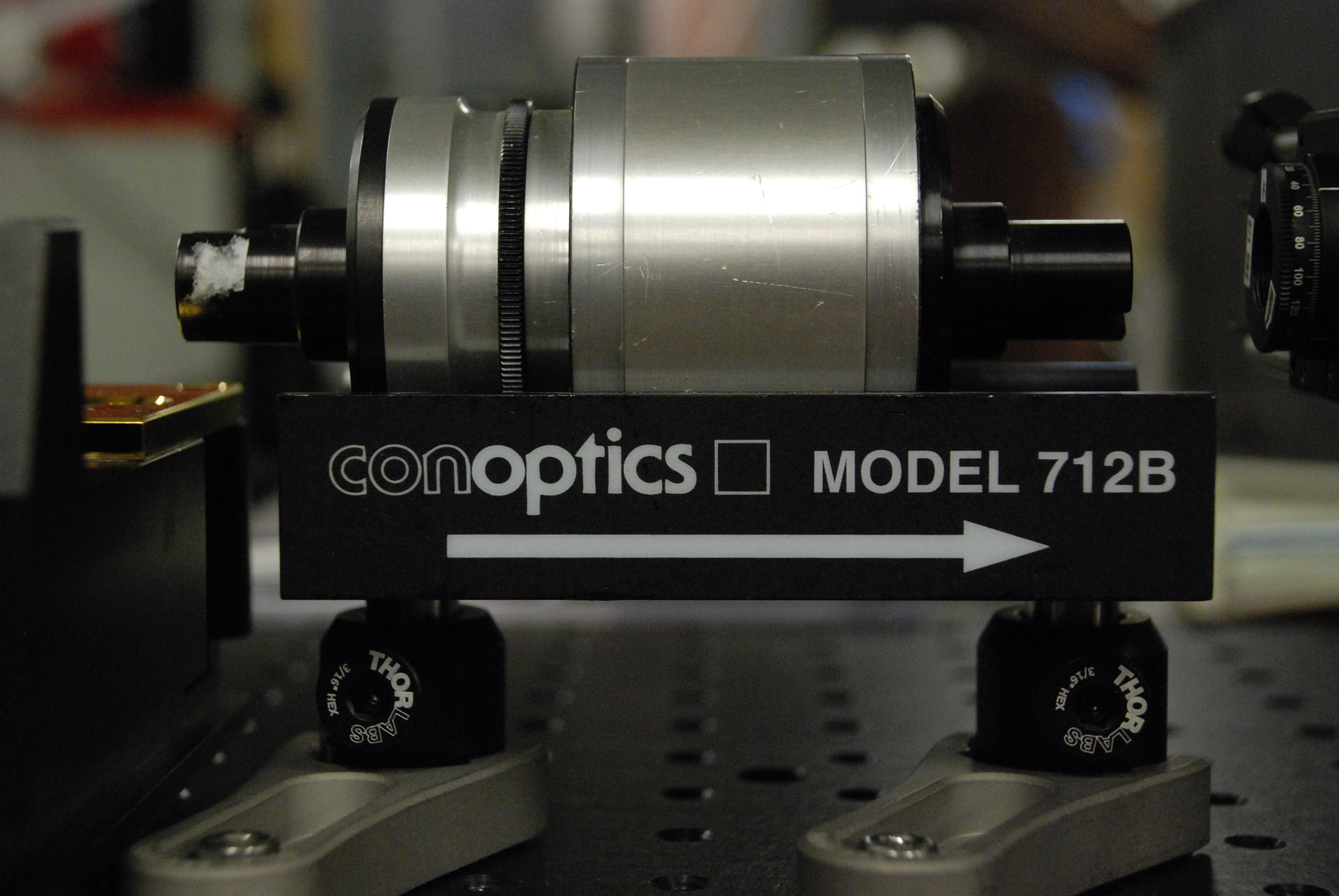 Optical isolator used in 2014 at JQI, UMD.